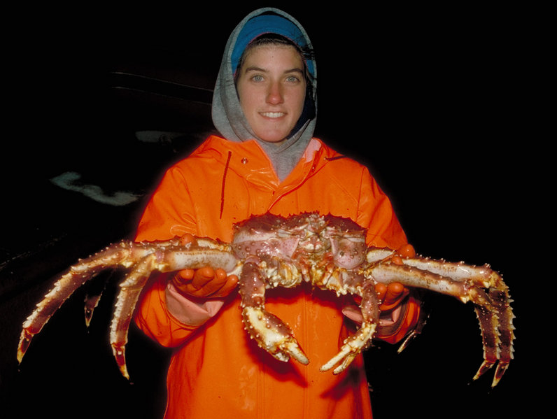 Photo of a woman holding a red king crab.